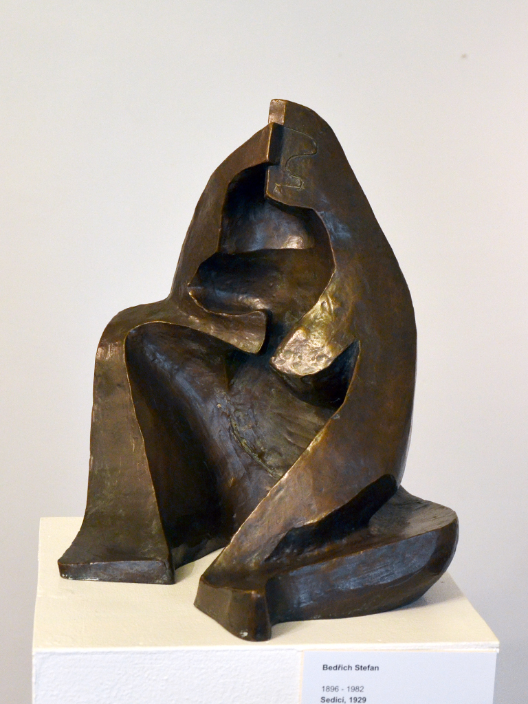 Bedřich Stefan, Sitting woman (1929), bronze, Regional gallery Liberec